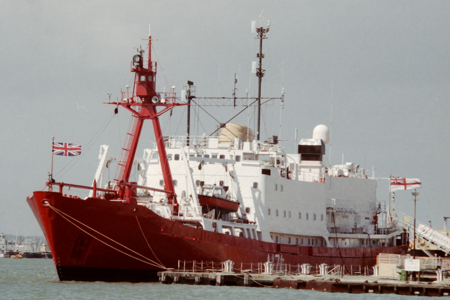 The former Royal Navy icebreaker HMS Endurance (1967) , A-171, GWRH, in Portsmouth Harbour.